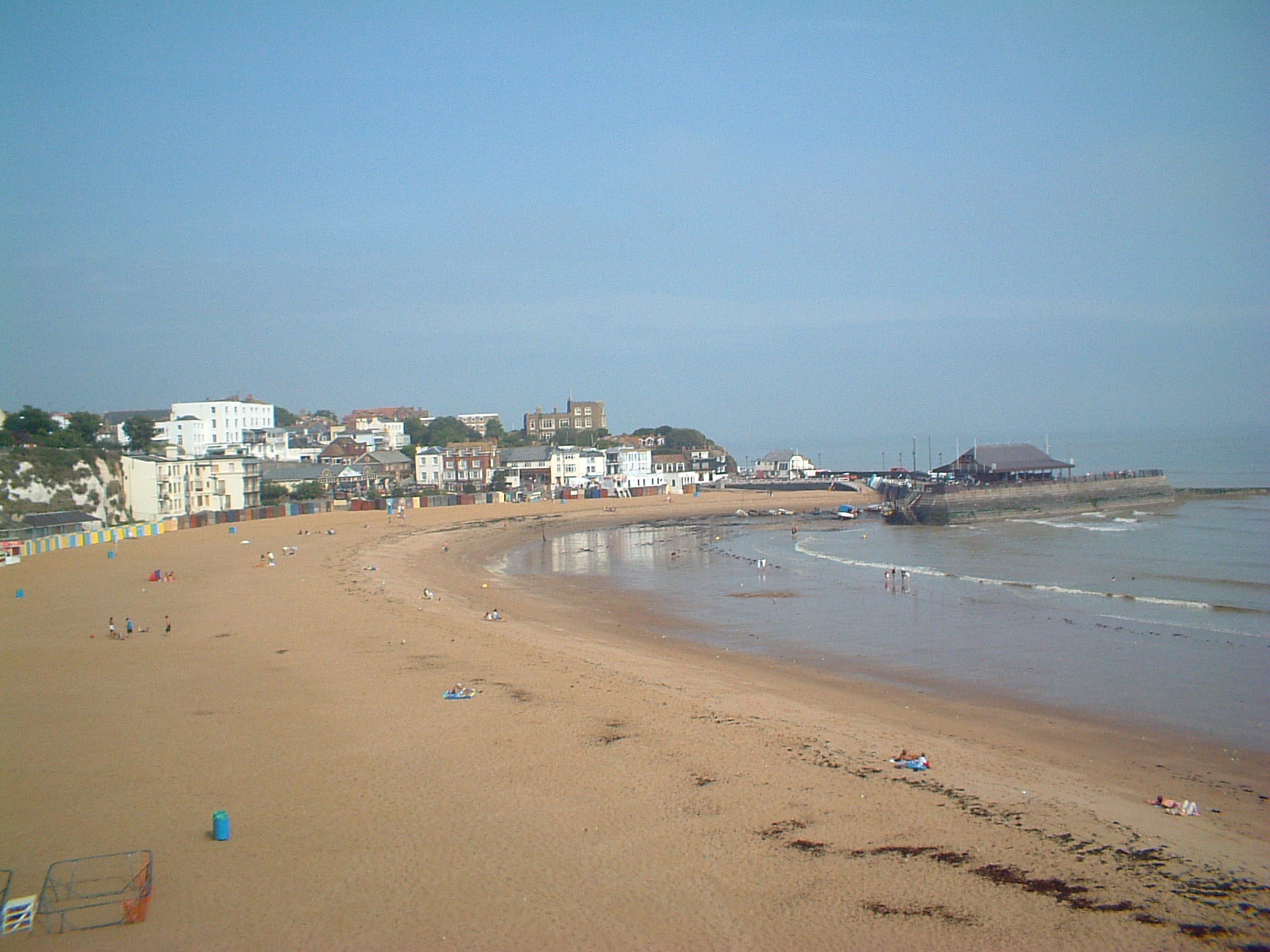 Viking Bay, Broadstairs. Taken by James Armitage, Saturday 10th September 2005.